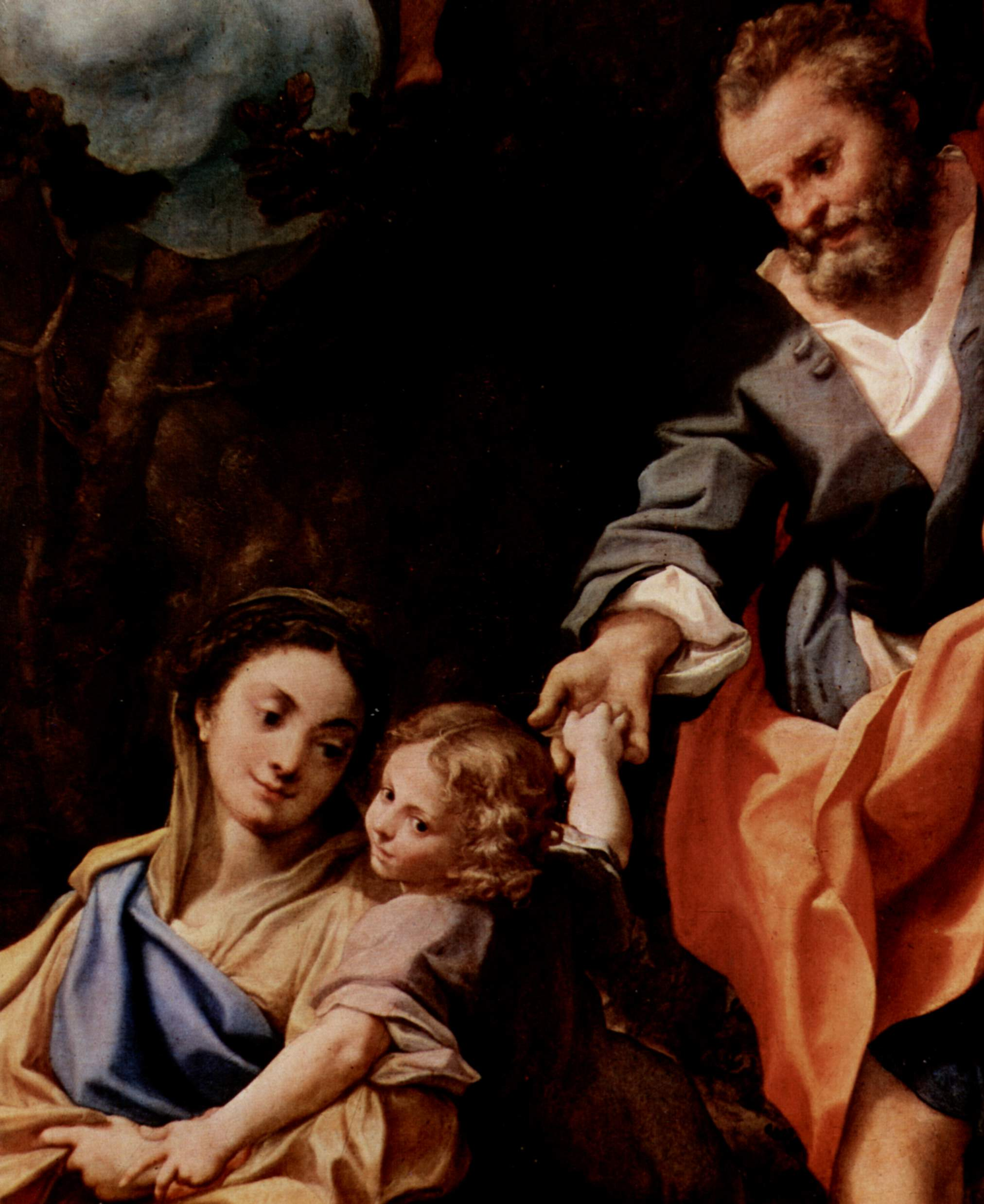 The Rest on The Flight into Egypt, detail